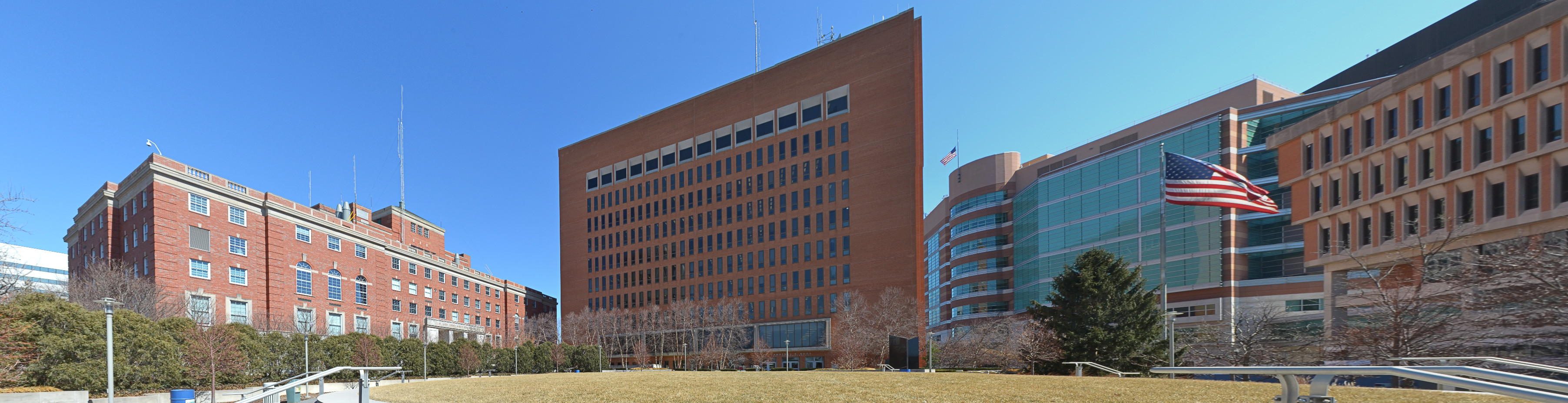 St. Louis County, Missouri Government Center. From left to right: St. Louis County Police Headquarters, Lawrence K. Roos County Government Building, Buzz Westfall Justice Center, St. Louis County Courts Building